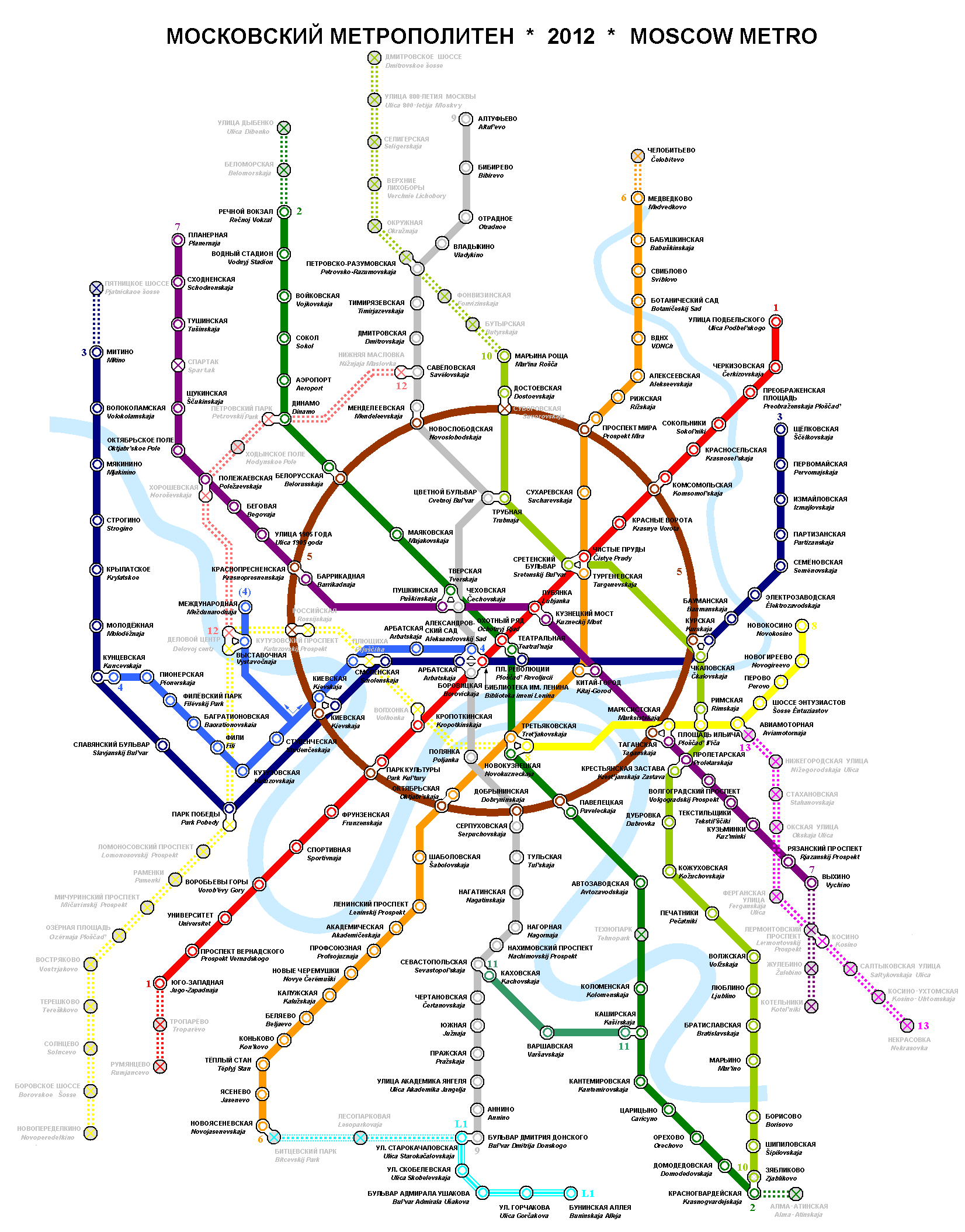 An unofficial map of the Moscow Metro as of September 2012